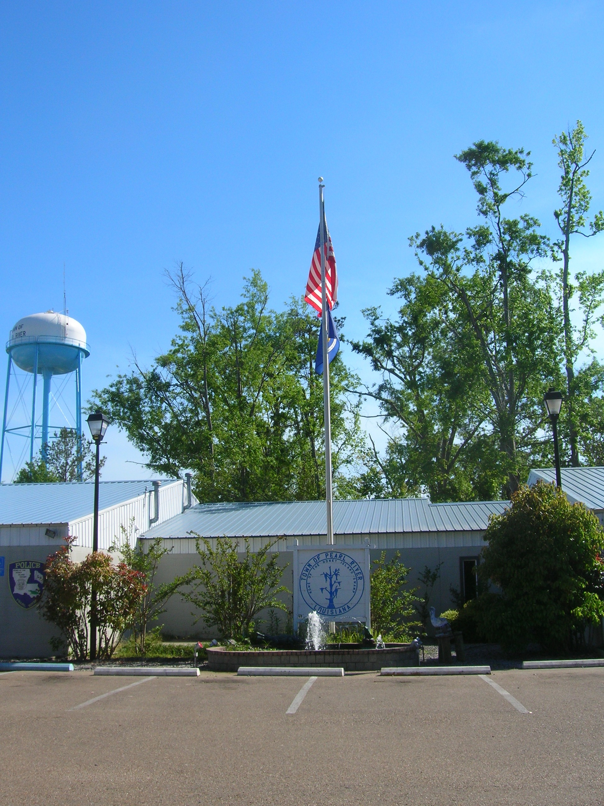 The Town of Pearl River, Louisiana is located in the southeastern region of the state, in St. Tammany Parish, near to the Mississippi border and the river for which it is named, about forty miles from the City of New Orleans. Photo taken by myself, Scott Basford, in April of 2006.